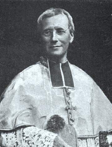 Photo of Cardinal Andrieu, Archbishop of Bordeaux (1849-1935)